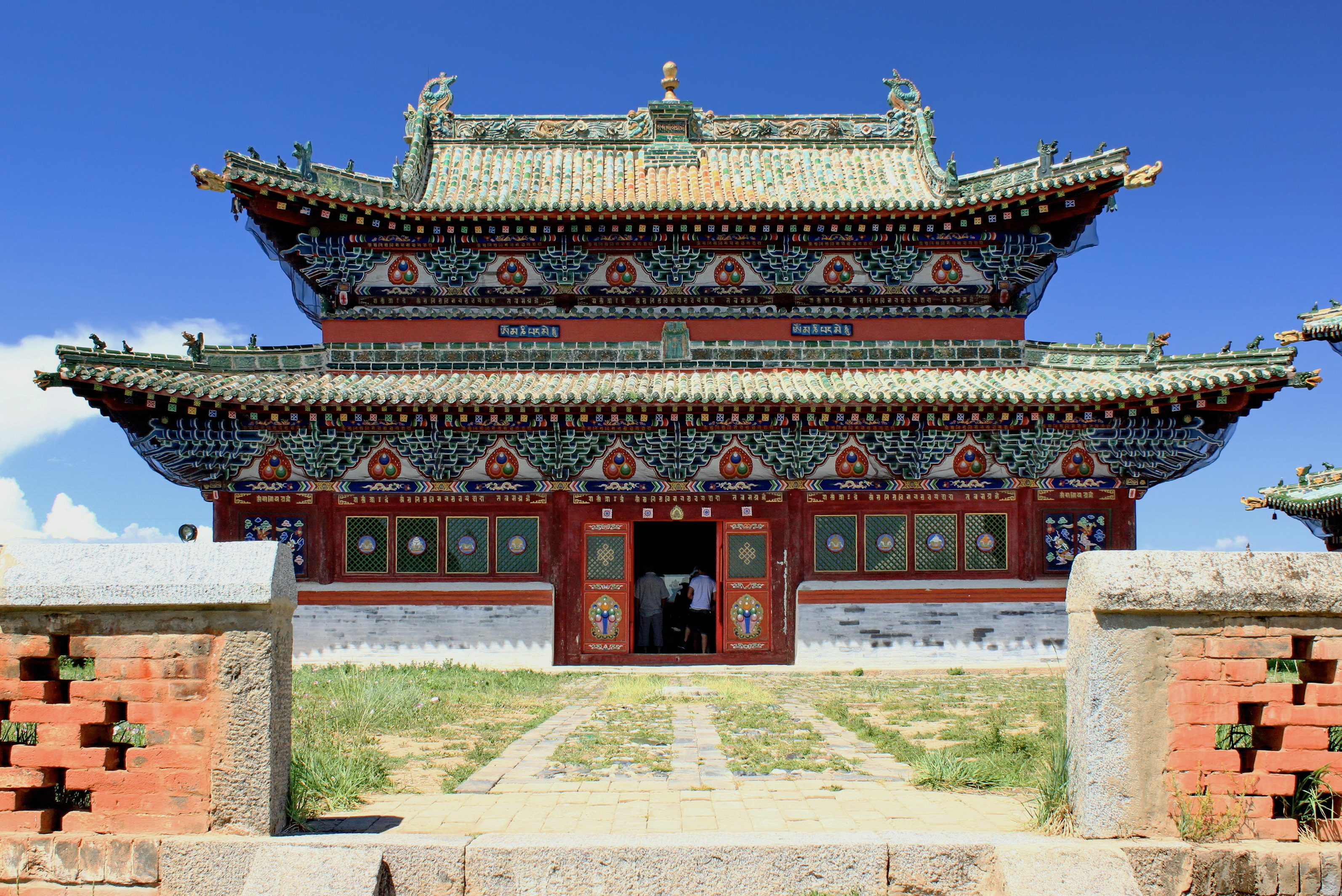 Western Temple in the Erdene Zuu Monastery. Built by Abtai Khaan and his son, the temple is dedicated to the adult Buddha. Kharkhorin, Övörkhangai Province, Mongolia.